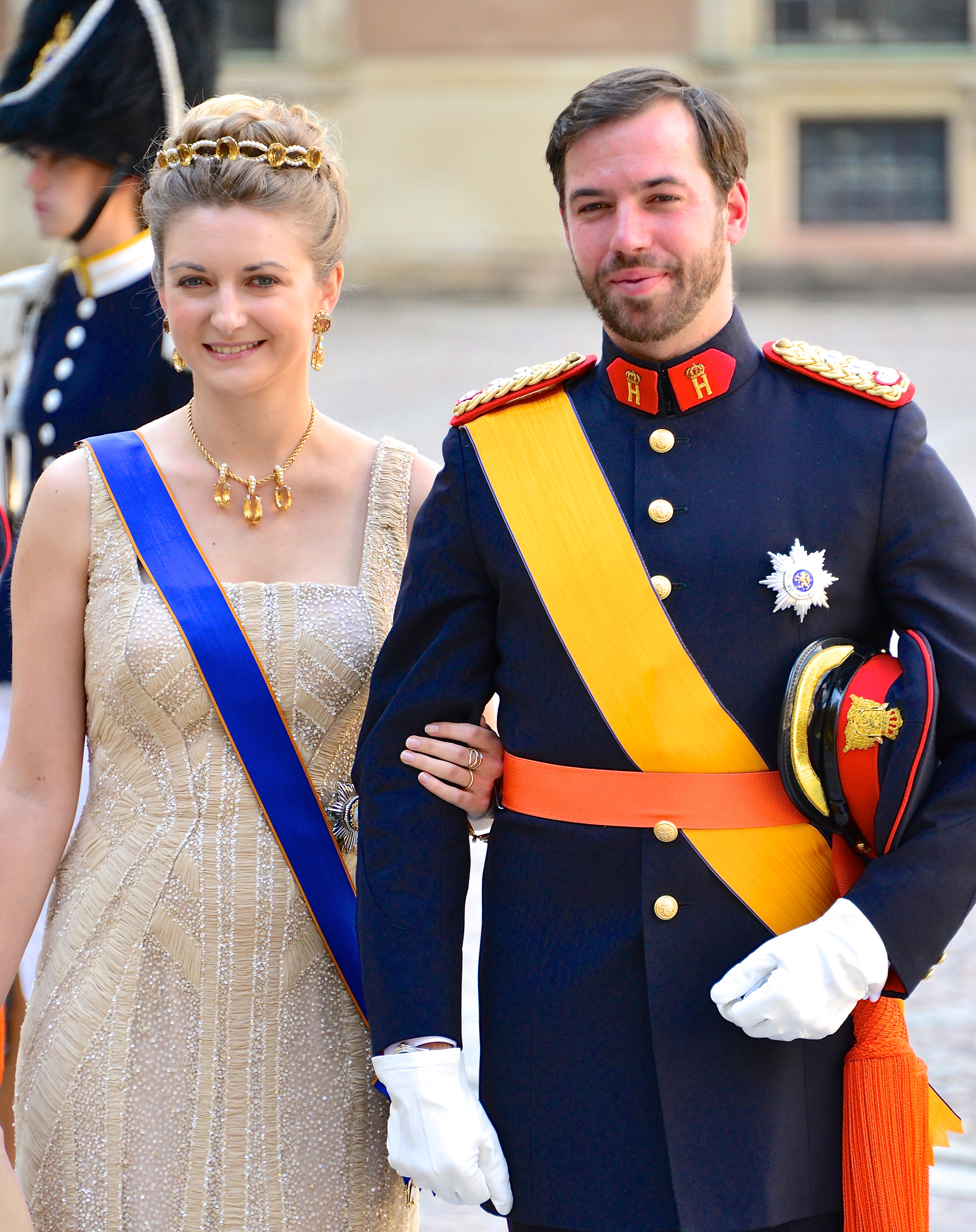 Guillaume, Hereditary Grand Duke of Luxembourg and Stéphanie, Hereditary Grand Duchess of Luxembourg on the way to the castle church at the Royal Palace in Stockholm before the wedding between Princess Madeleine and Christopher O'Neill June 8, 2013.